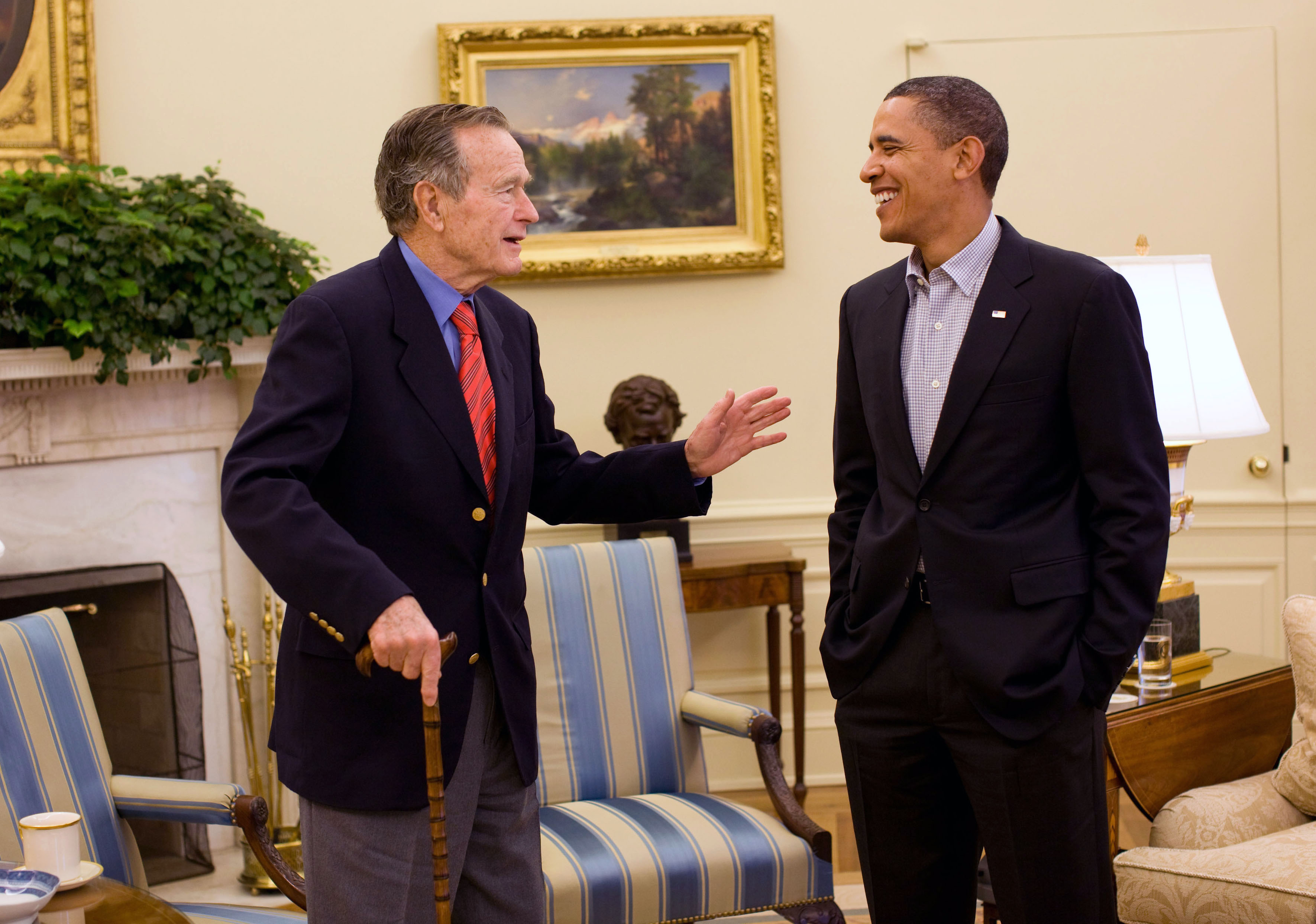 President Barack Obama meets with former President George H.W. Bush in the Oval Office, Saturday, Jan. 30, 2010.